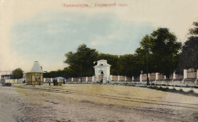 Postcards of old Kremenchuk. Міський сад.